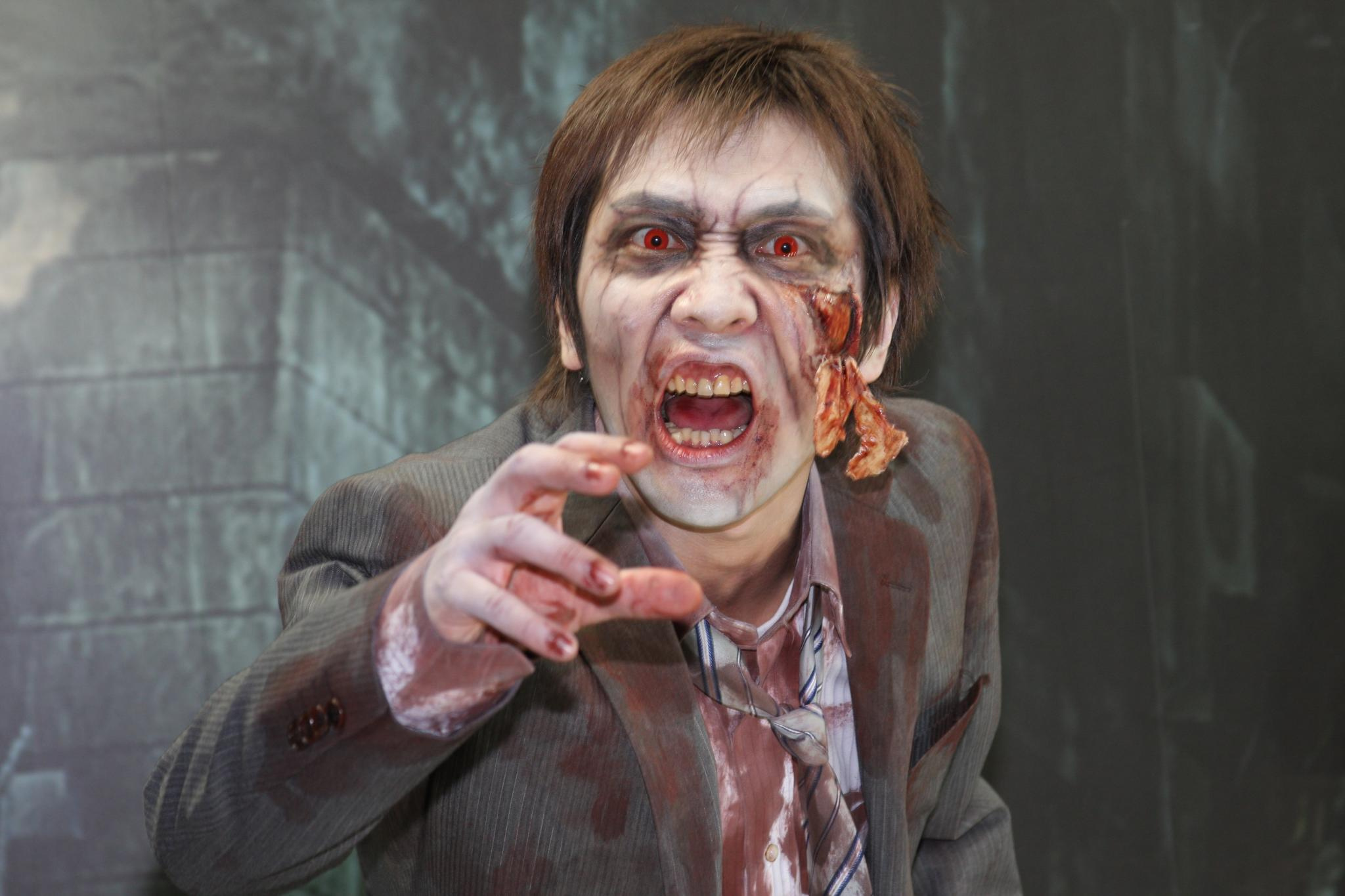 Of all TGS presenters, this guy have the most striking makeup Taken on September 19, 2010 Canon EOS 40D